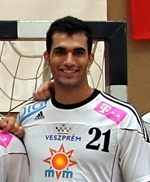 Iranian handball player Moorchegani Iman Jamali of KC Veszprém (MKB Veszprém Kézilabda), on August 18th, 2013 in Ehingen (Germany), winning the Sparkassen Cup (formerly known as Schlecker Cup).